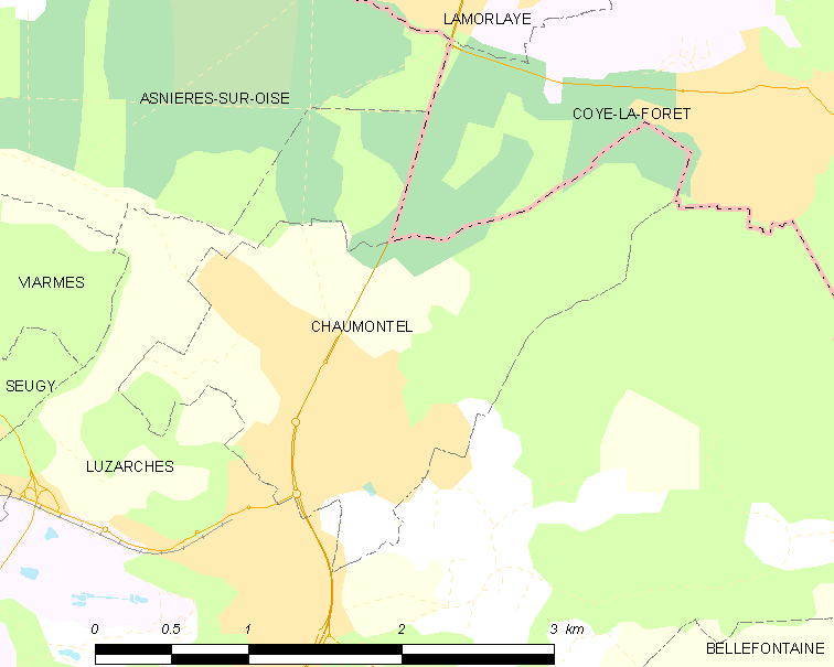 Map of French municipality Chaumontel